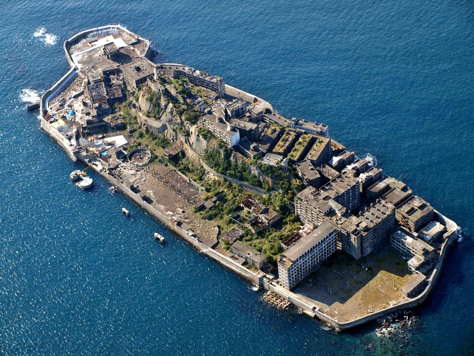 軍艦島 (Hashima Island, also known as Battleship Island) 2008, Nagasaki